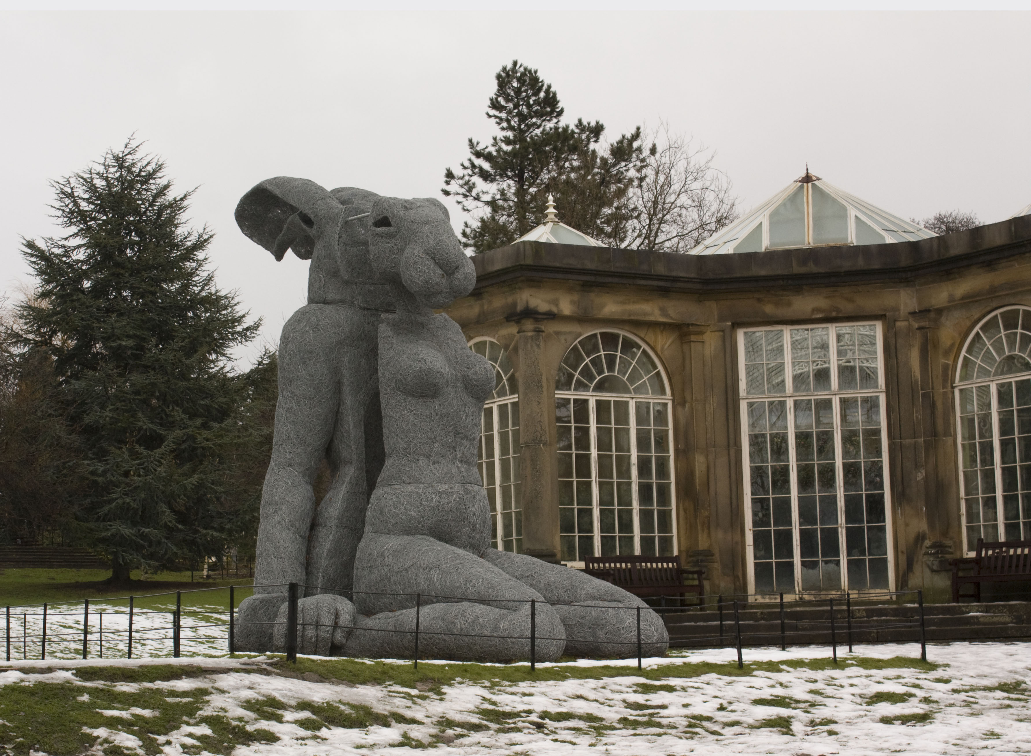 "Sitting" 2007, Sophie Ryder, Yorkshire Sculpture Park.